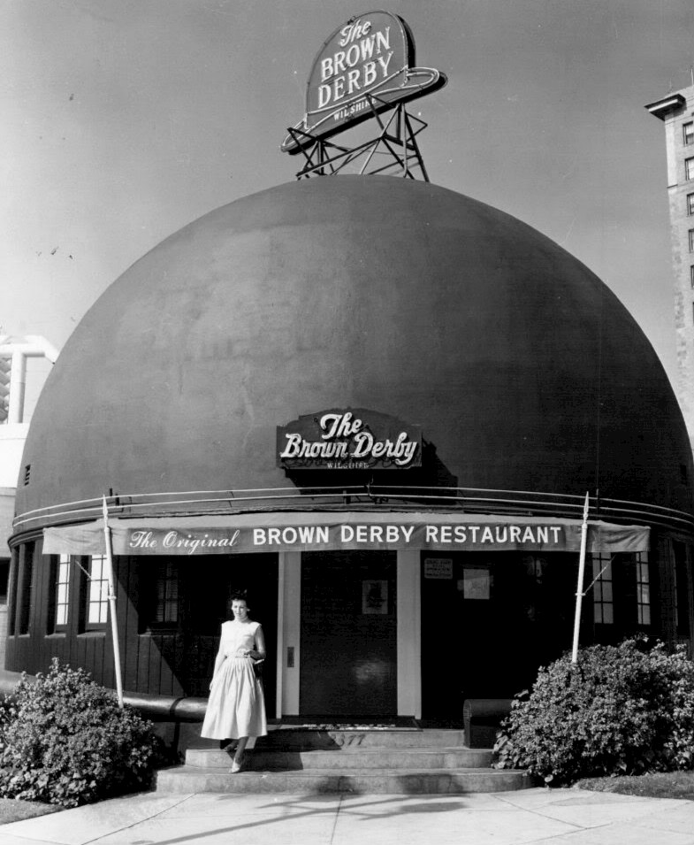 Photo of the entrance of the original Brown Derby restaurant on Wilshire Boulevard in Hollywood.